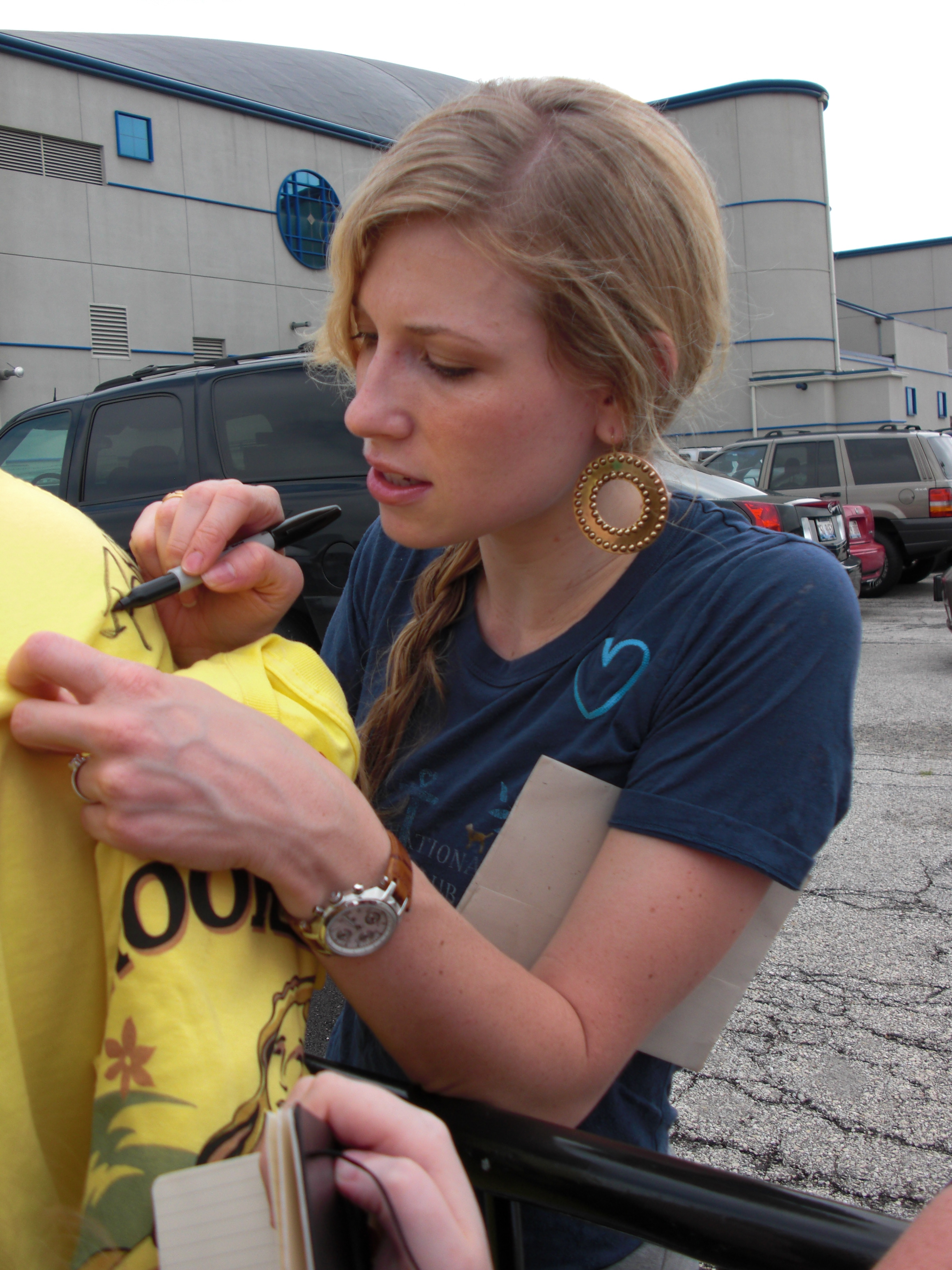 Brooke White signing autographs during the American Idols LIVE! Tour 2008 in Rosemont, Illinois, USA.